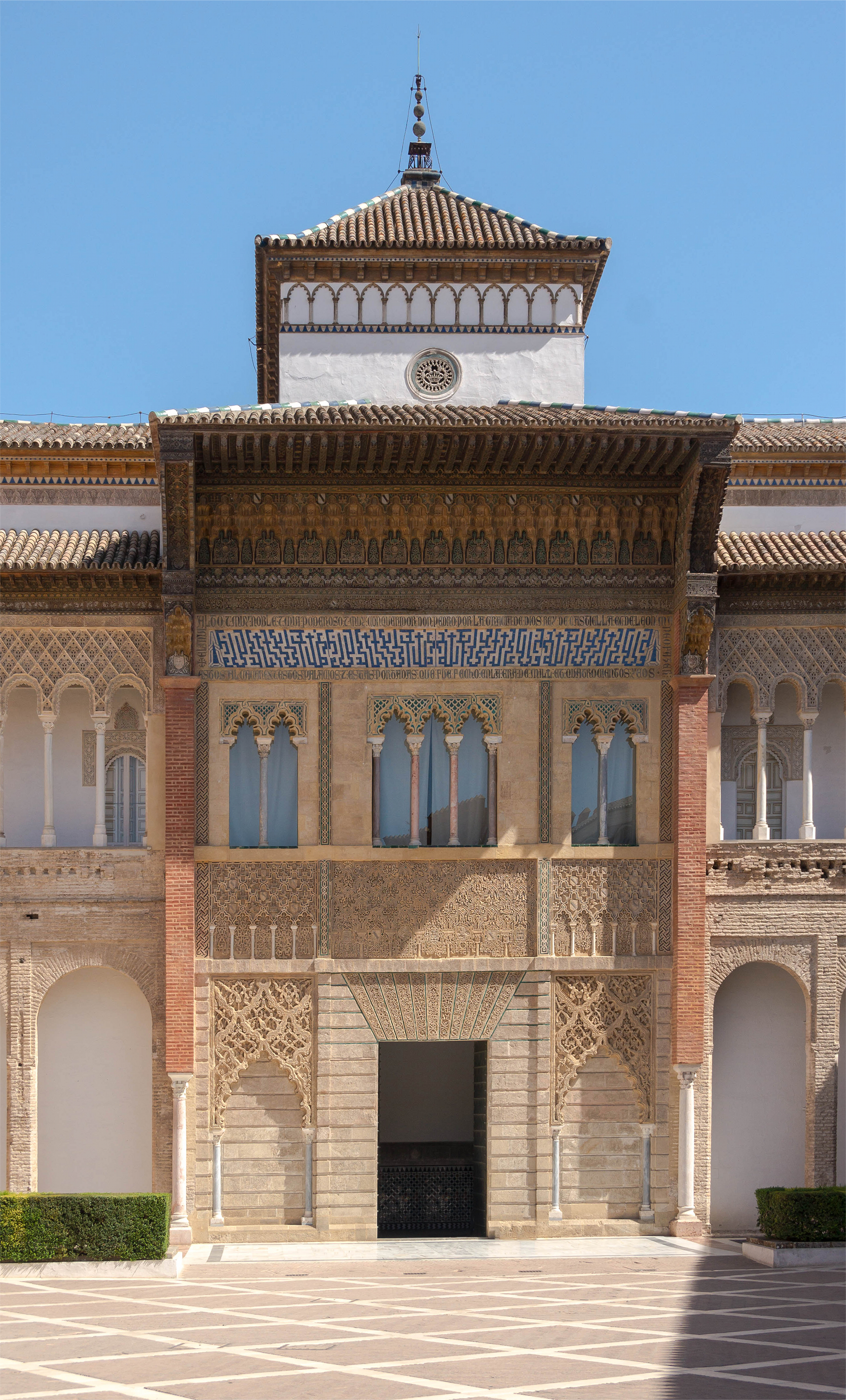 "Patio de la Monteria", entrance of the palace of Peter I of Castile, Alcazar of Seville, Spain.